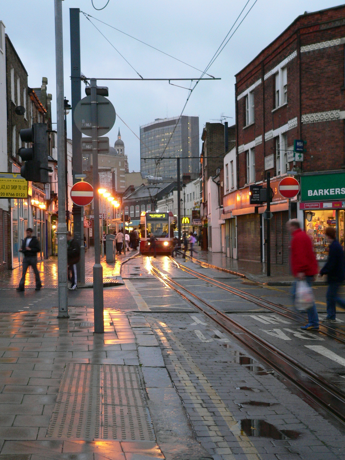 A Tramlink tram at Church Street station in central Croydon on 24 October 2005.